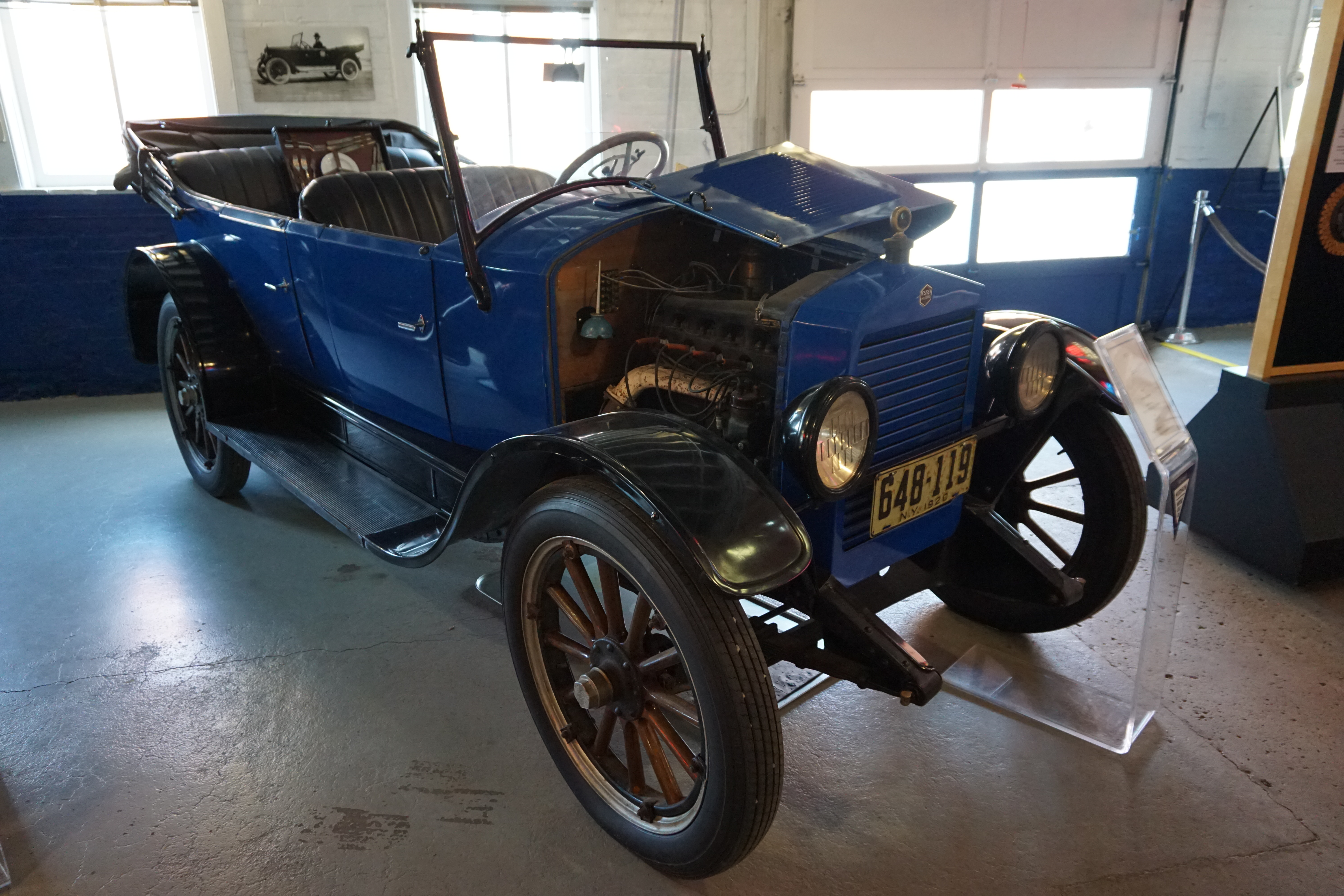 A 1920 Essex at the Ypsilanti Automotive Heritage Museum in Ypsilanti, Michigan (United States).